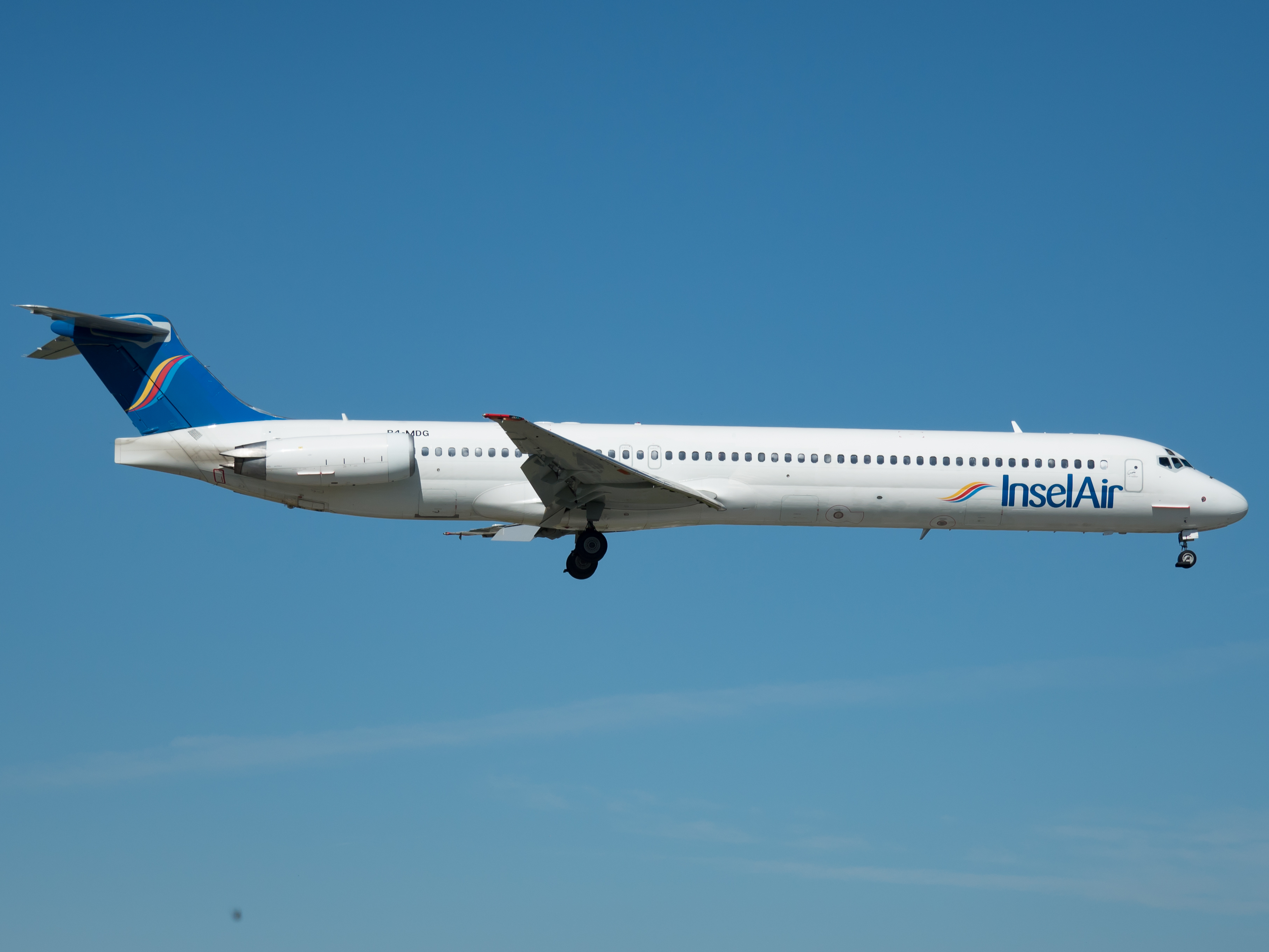 InselAir Aruba McDonnell Douglas MD-83 at Miami International Airport